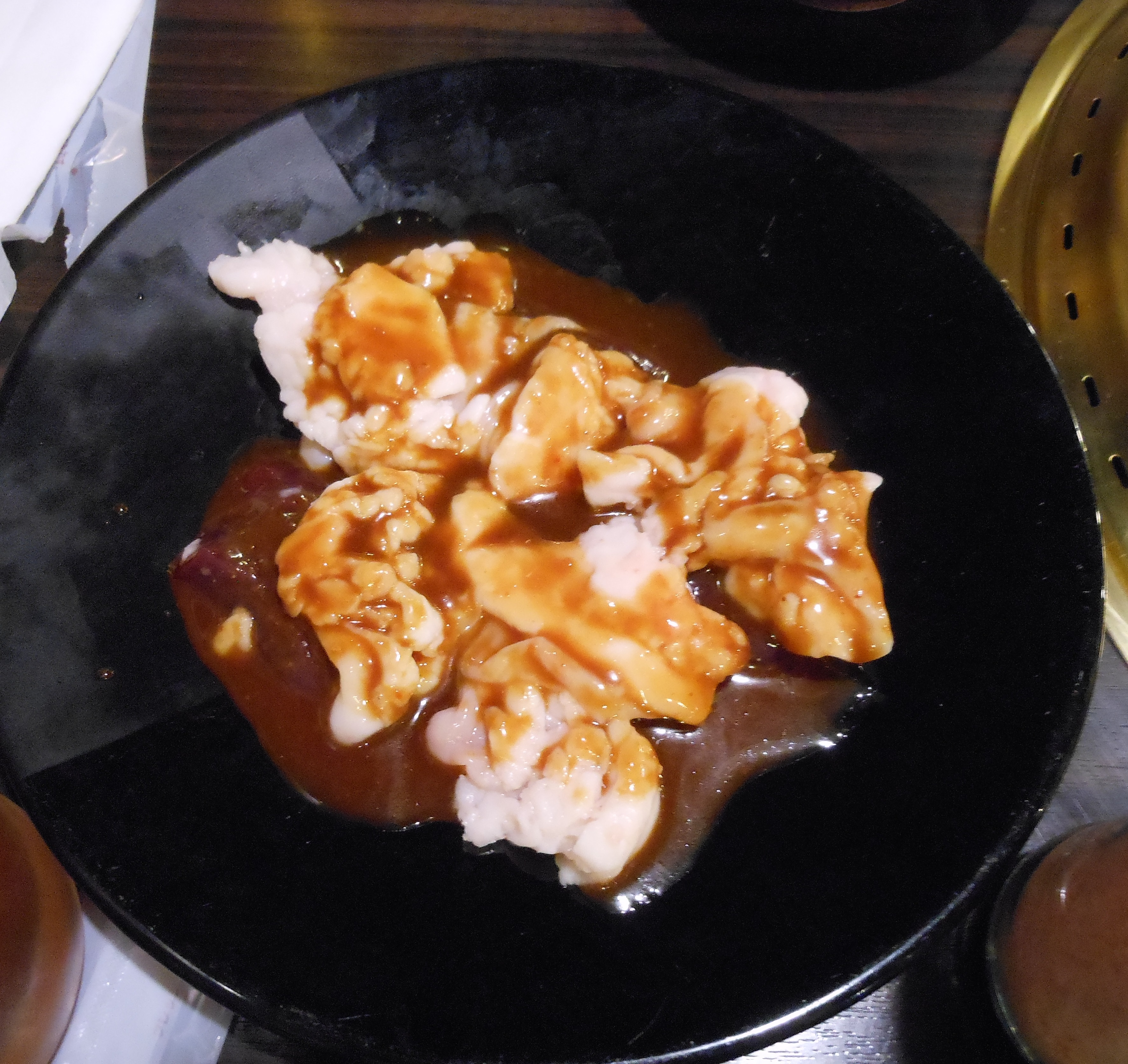 This is Matsusaka Beef for Yakiniku. It was served by Isshobin Hisai Inter Garden shop.